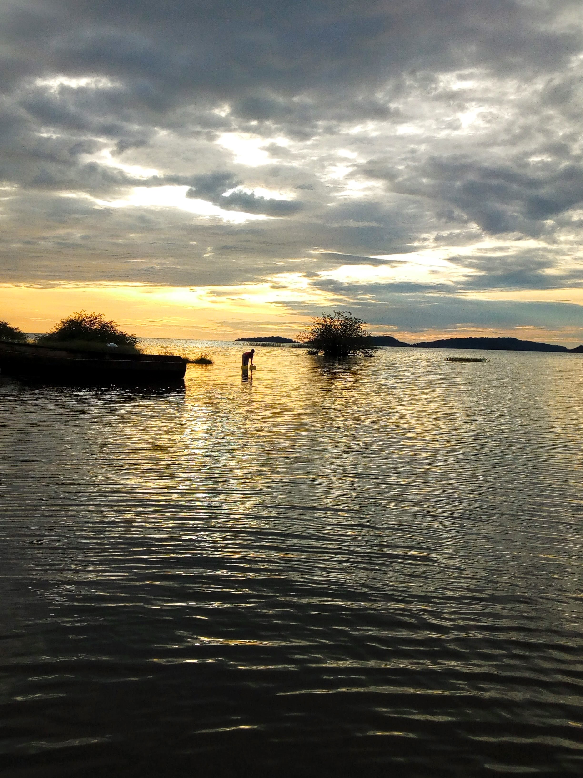 Mothers in fishing villages have to wake up very early in the morning to prepare tea for their families then head to the garden. Photograph taken in the Islands of Koome, Lake Victoria Uganda. This is an image of "African people at work" from Uganda